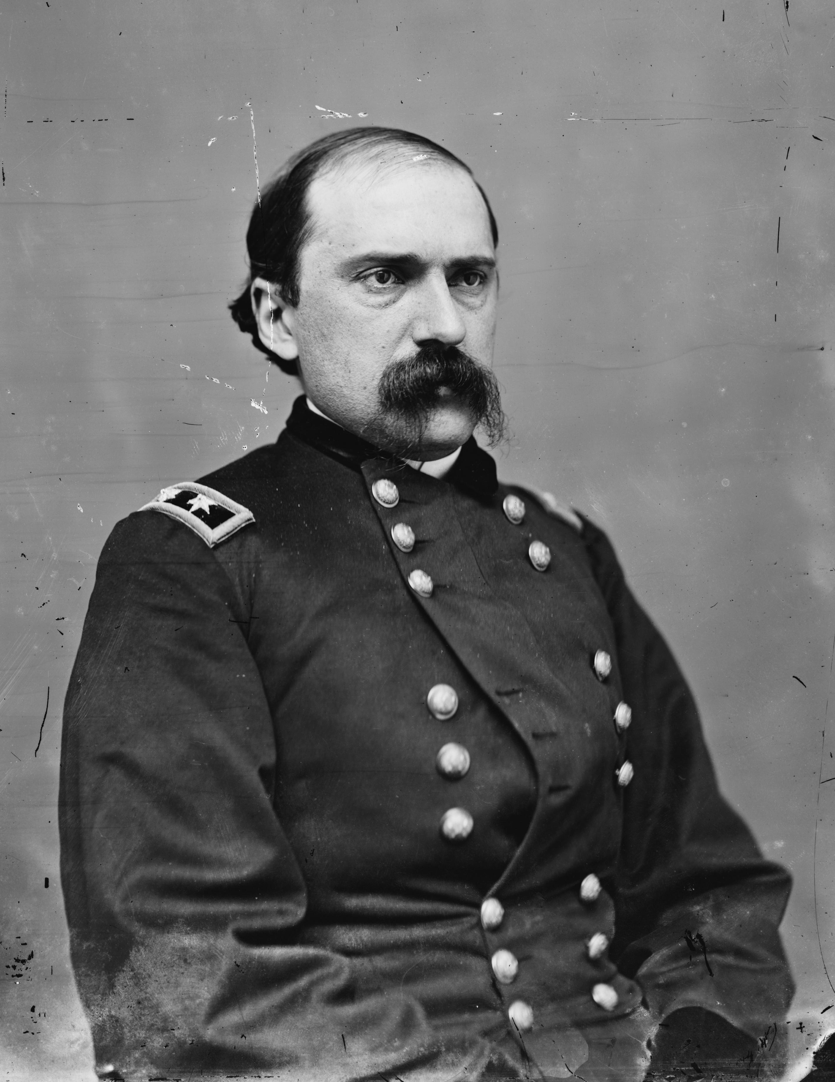 Gen. Ed. McCook, U.S.A.